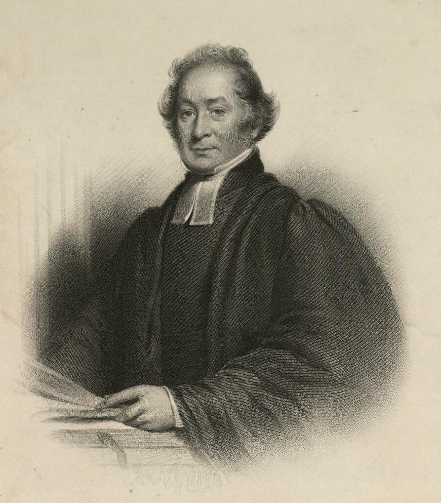 A portrait from the Welsh Portrait Collection at the National Library of Wales. Depicted person: Thomas Raffles – English congregationalist minister